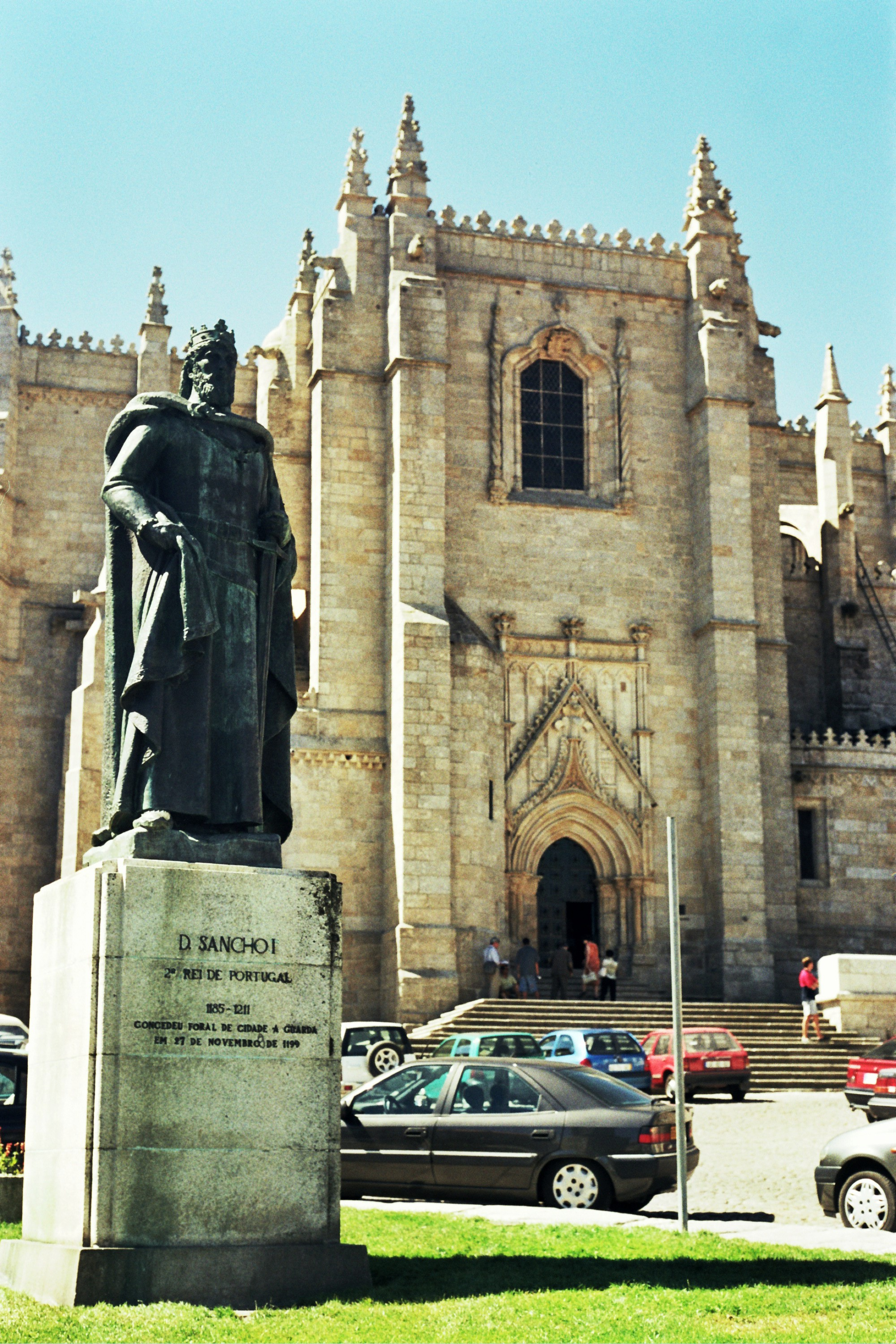 Sé Cathedral and the statue of Dom Sancho I